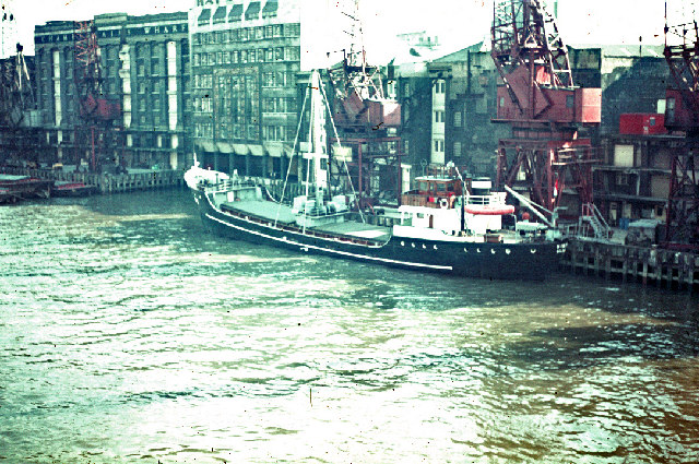 Hay's Wharf c1960